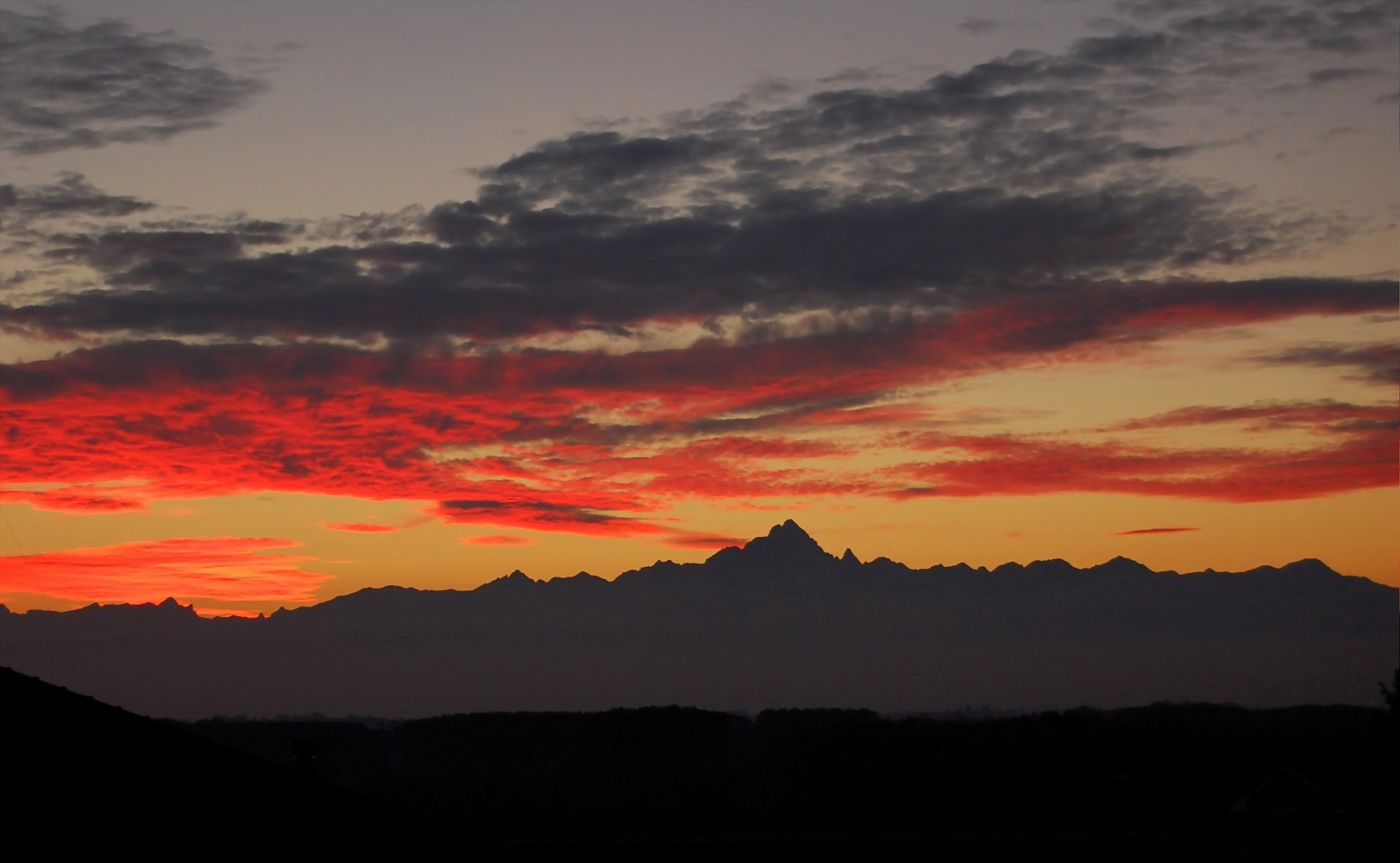 Mount Viso (Monte Viso) at sunset seen from the hill of Bra, (Cuneo provence) Italy.